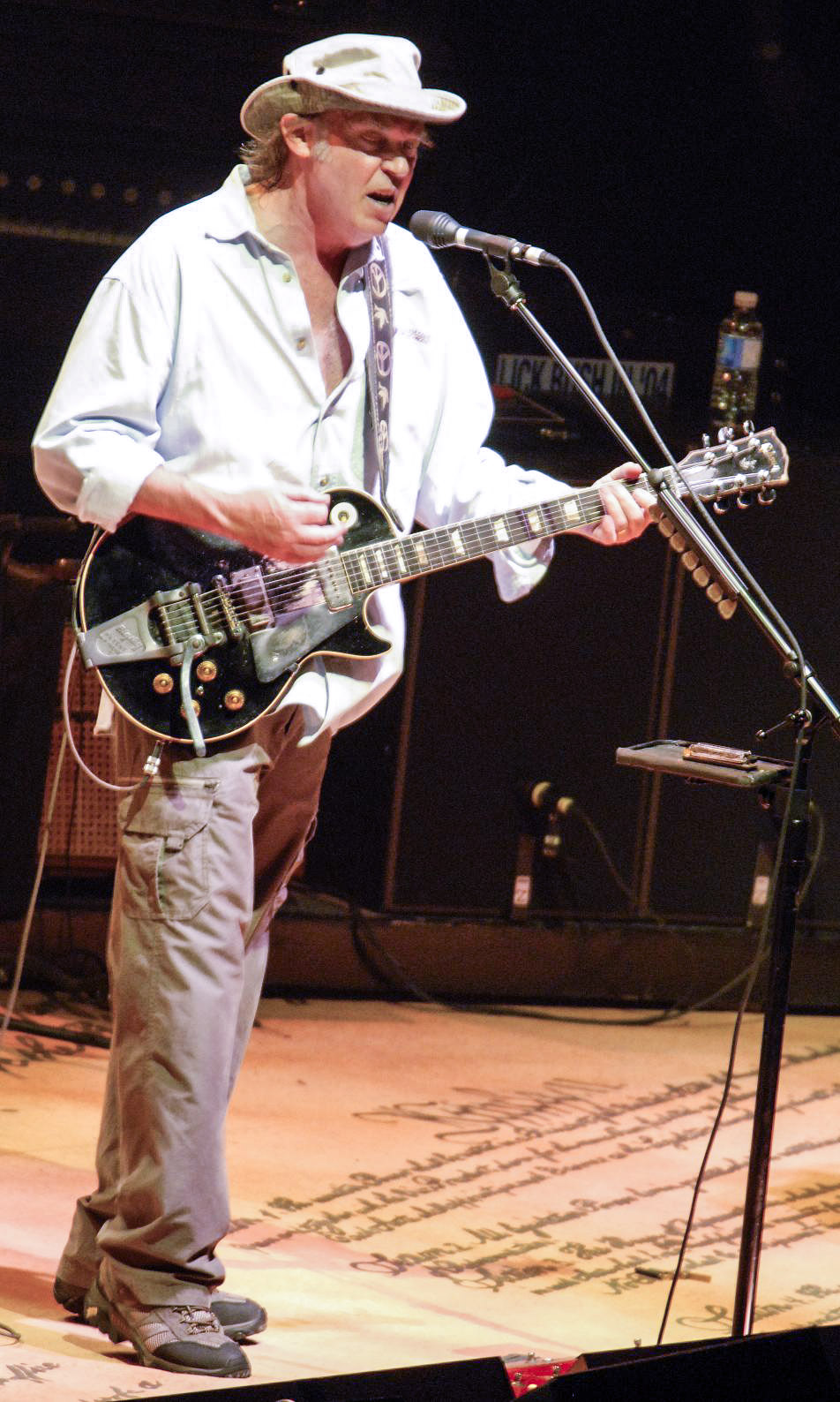 Picture Taken at Crosby Stills Nash and Young Concert Near Ottawa, Ontario, Canada his guitar, Old black, is allegedly heavily customized 1953 Gibson Les Paul Goldtop.